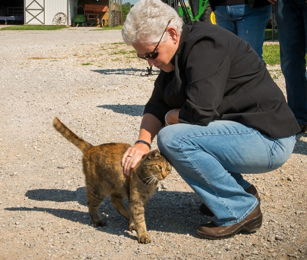 As Administrator McCarthy arrives at a mid-Missouri farm, she’s greeted by their friendly barn cat.